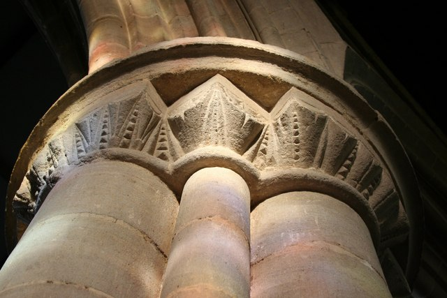 Norman Capital Late 12th century scallop capital with a round abacus in the south arcade of the Priory church of Deeping St.James